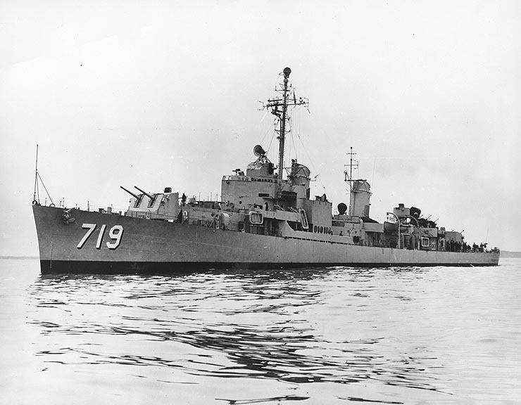 The U.S. Navy destroyer USS Epperson (DDE-719) photographed when first completed, probably during her delivery voyage from Bath Iron Works, Maine (USA), on 18 March 1949. Her RUR-4 Weapon Alpha anti-submarine rocket launcher has not yet been installed.